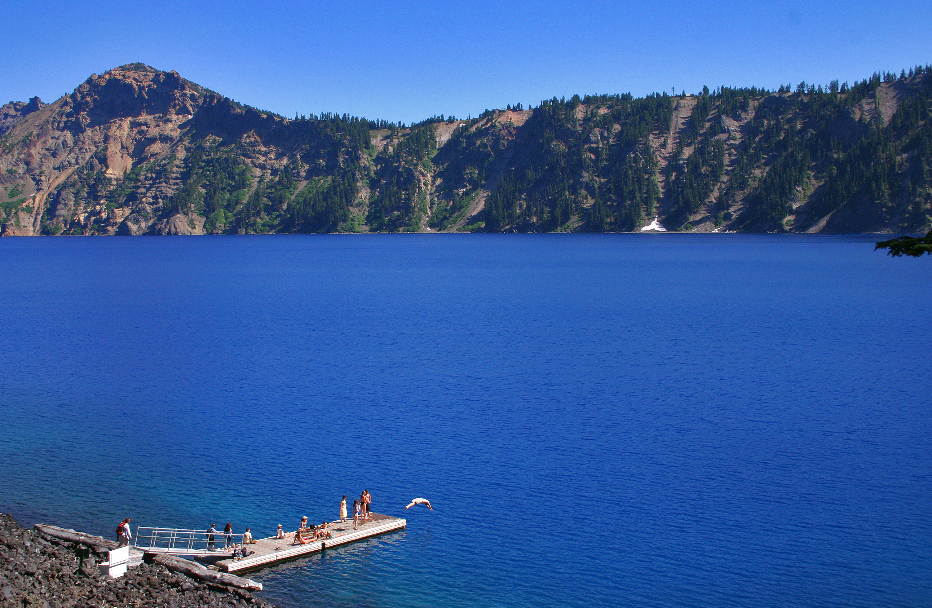 Hikers taking a brief cold swim while waiting for the boat at Wizard Island.